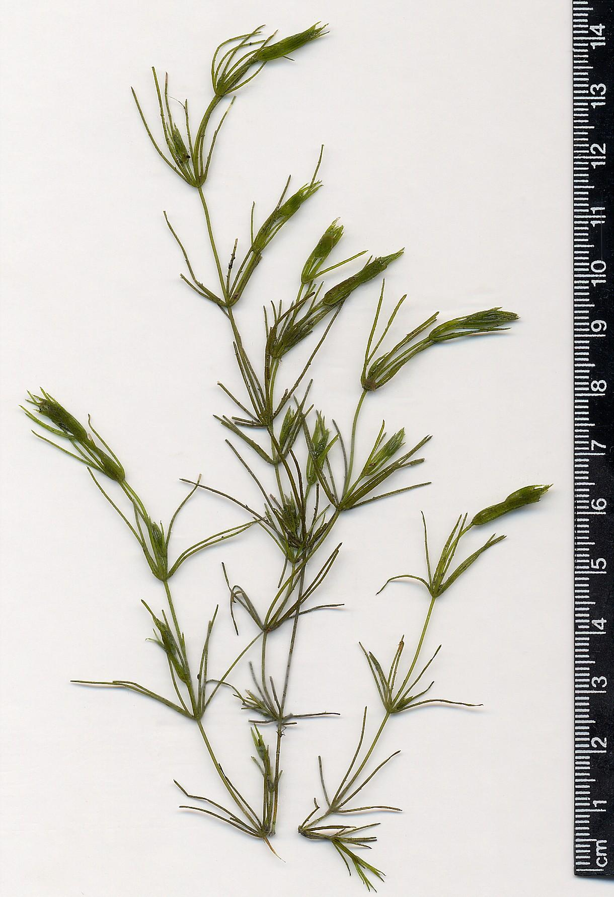 The stoneworts alga Chara globularis (Syn.: Chara fragilis; Characeae).